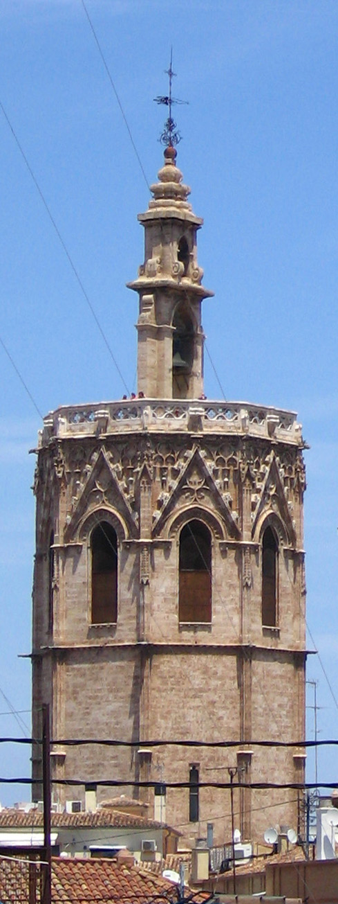 Micalet's View (València)